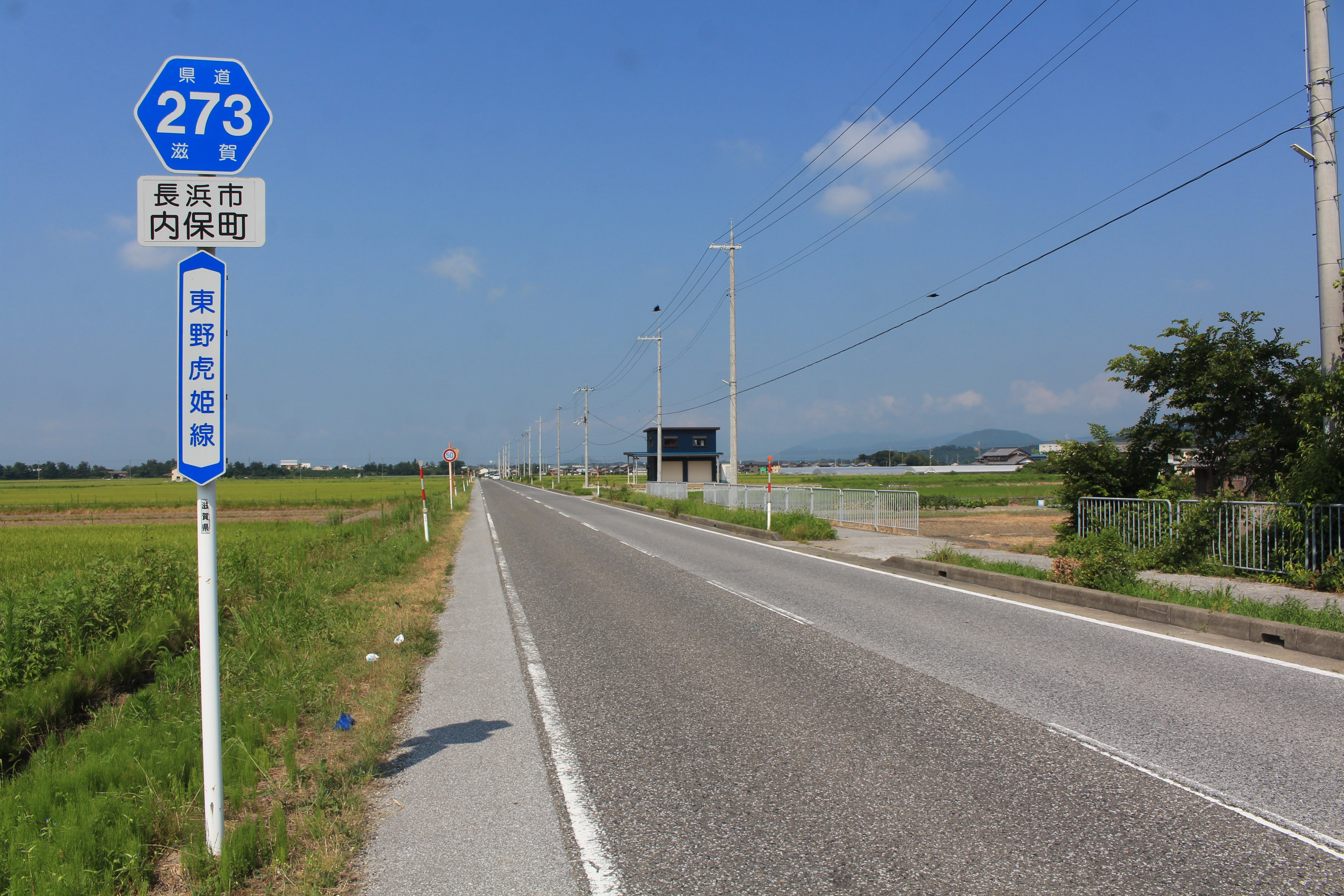 Shiga Prefectural Road Route 273 in Uchibocho, Nagahama, Shiga prefecture, Japan.